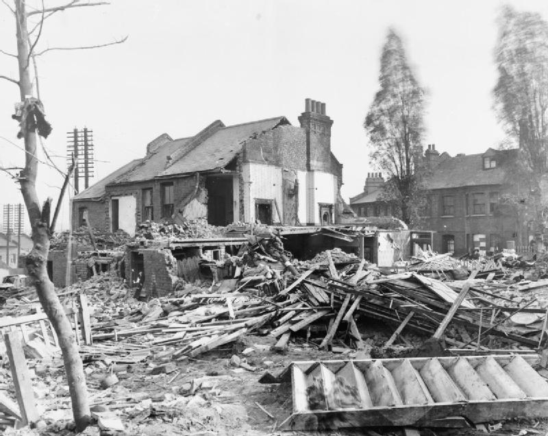 Bomb damage to property in Hither Green, London, following the German air raid on the night of 19 - 20 October 1917.